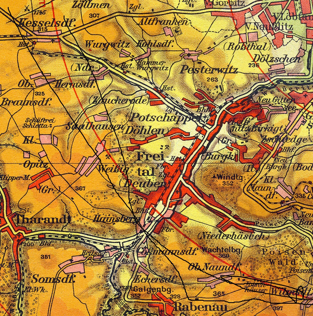 Freital (altitudes: green=0-120m, light green=120-150m, light yellow=150-200m, yellow=200-250m, light orange=250-300m, orange=300-350m, light brown=350-400m, brown=more than 400m)